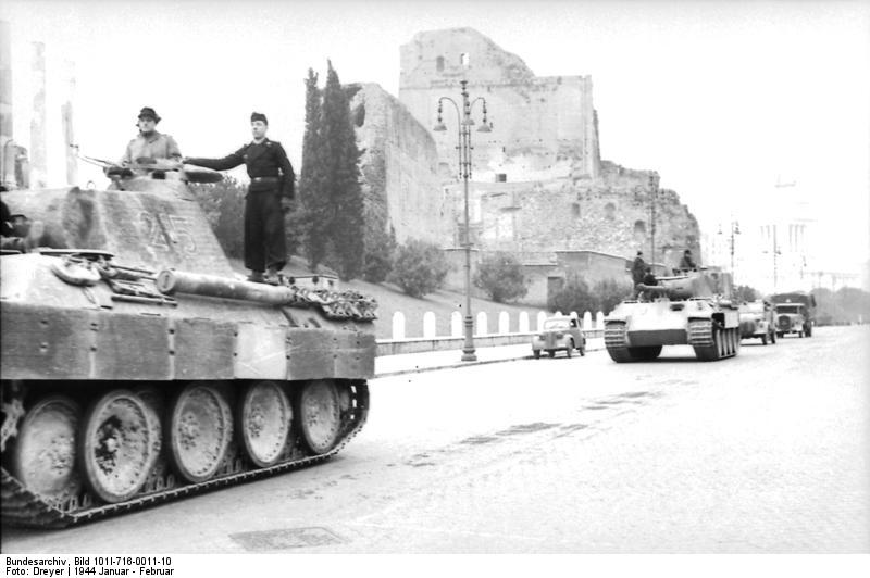 Information added by Wikimedia users.*